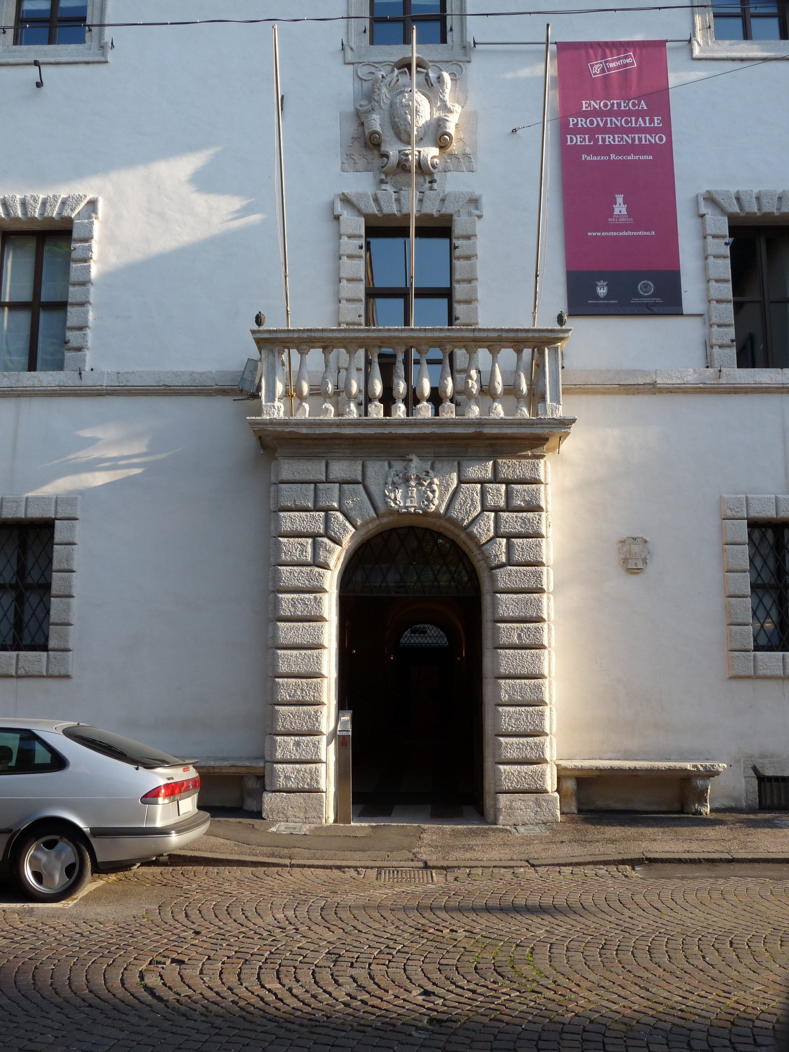 Trento (Italy): portal of Palazzo Roccabruna (XVI century)